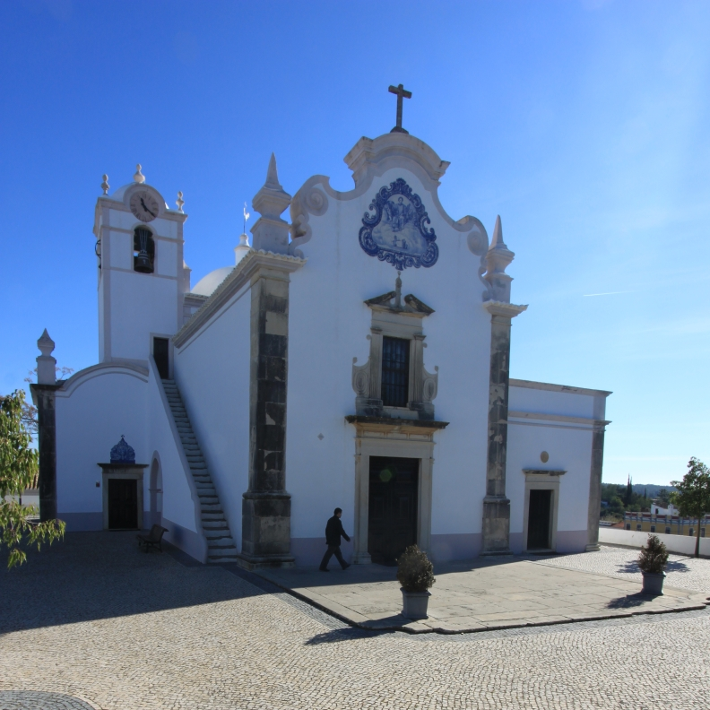 Church São Lourenço de Matos in Almancil